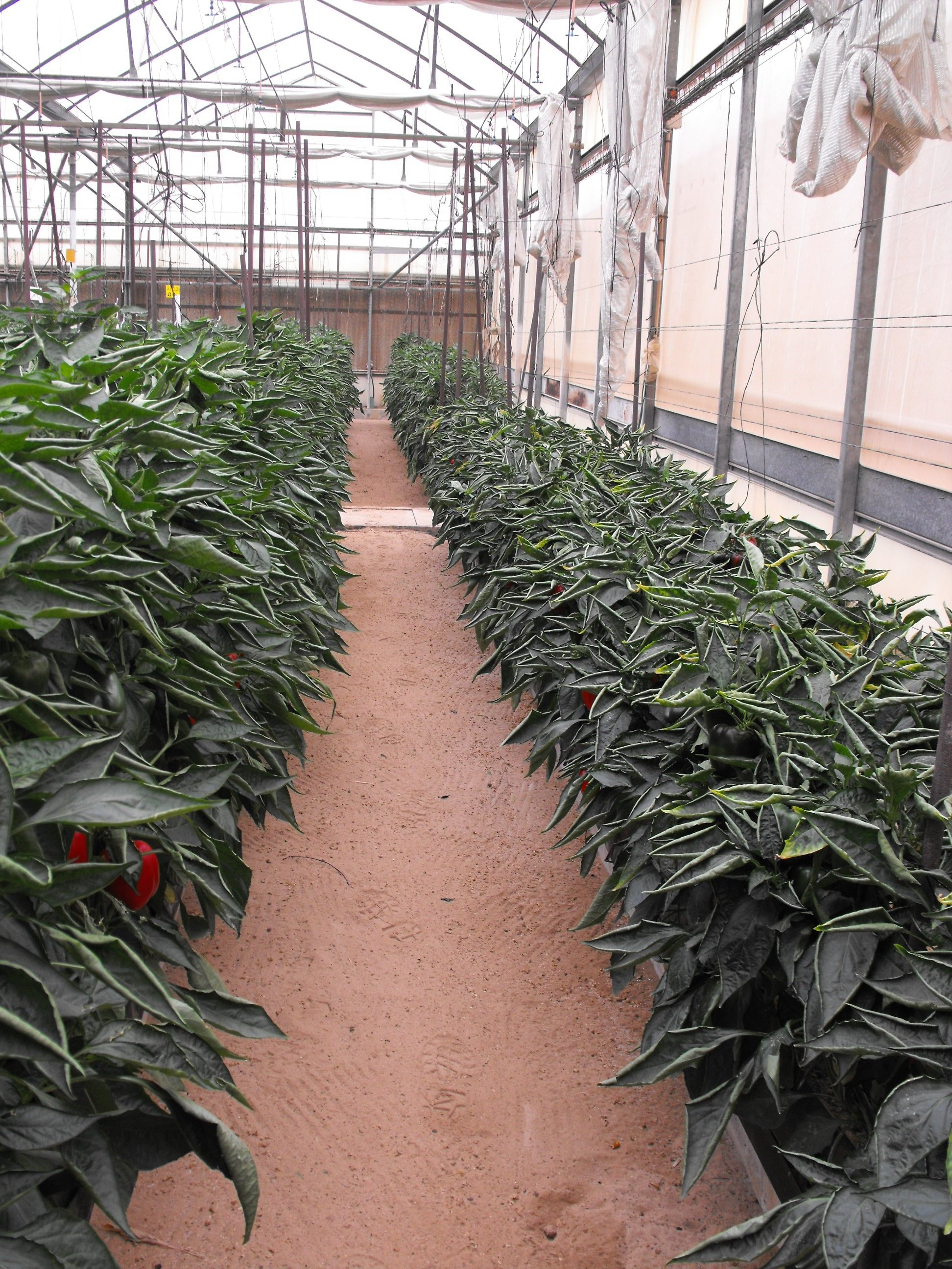 Agriculture in Israel